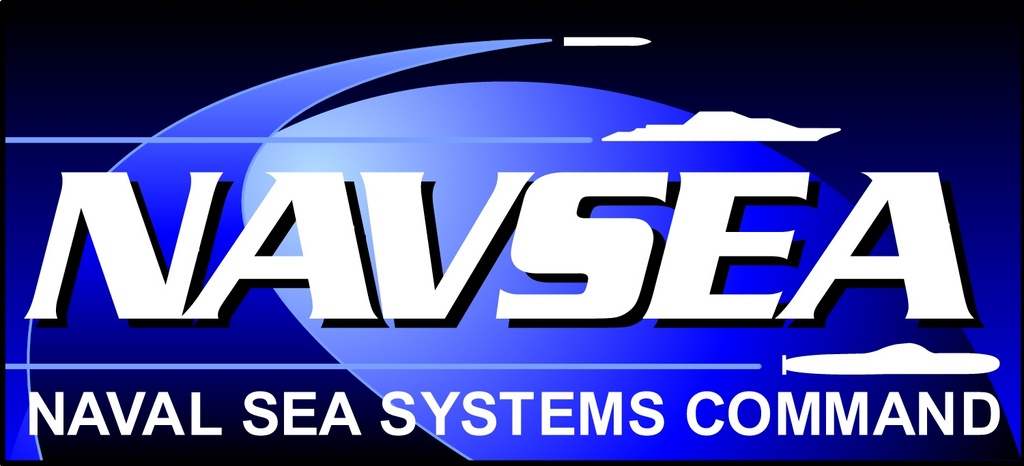 Logo of the Naval Sea Systems Command